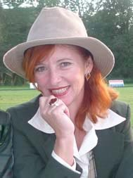 Portrait of Gonny van Oudenallen Photo retouched by Di9it8, October 21, 2011 Picture edit approved by Gonny Van Oudenallen, October 21, 2011